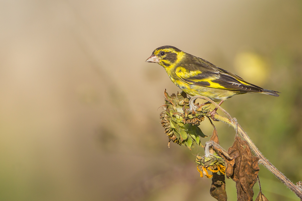 Male Yellow Breasted Greenfinch